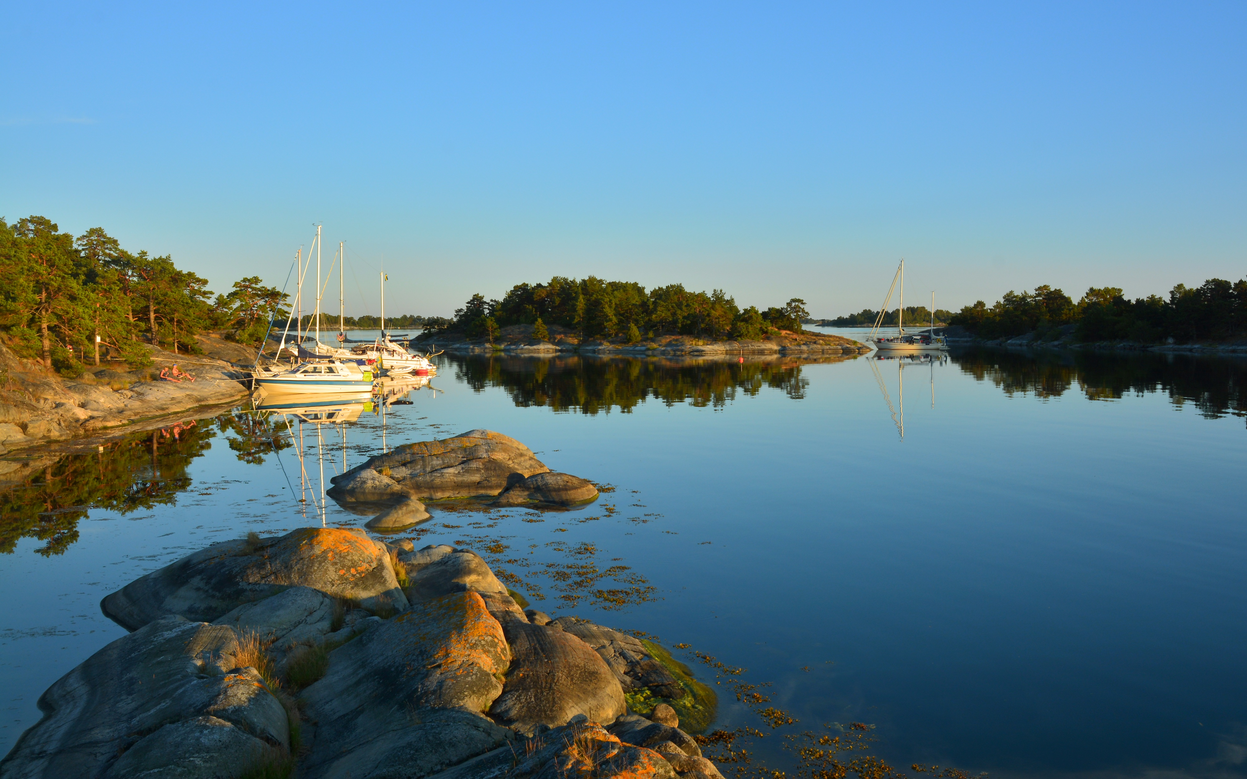 The natural haven at Boskapsön (Cattle island) in Stockholm archipelago, Sweden.